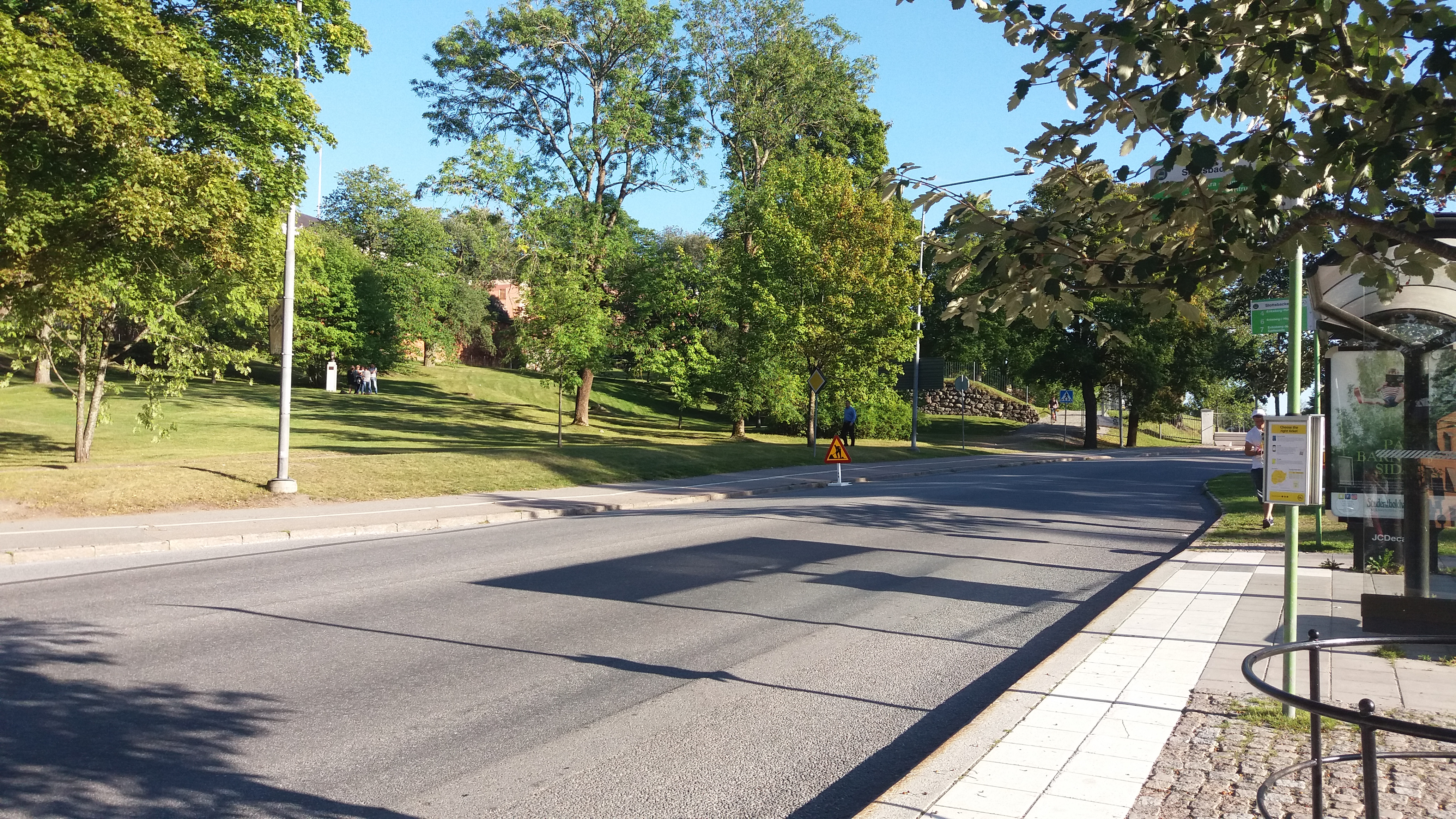 Dag Hammarskölds väg, Uppsala